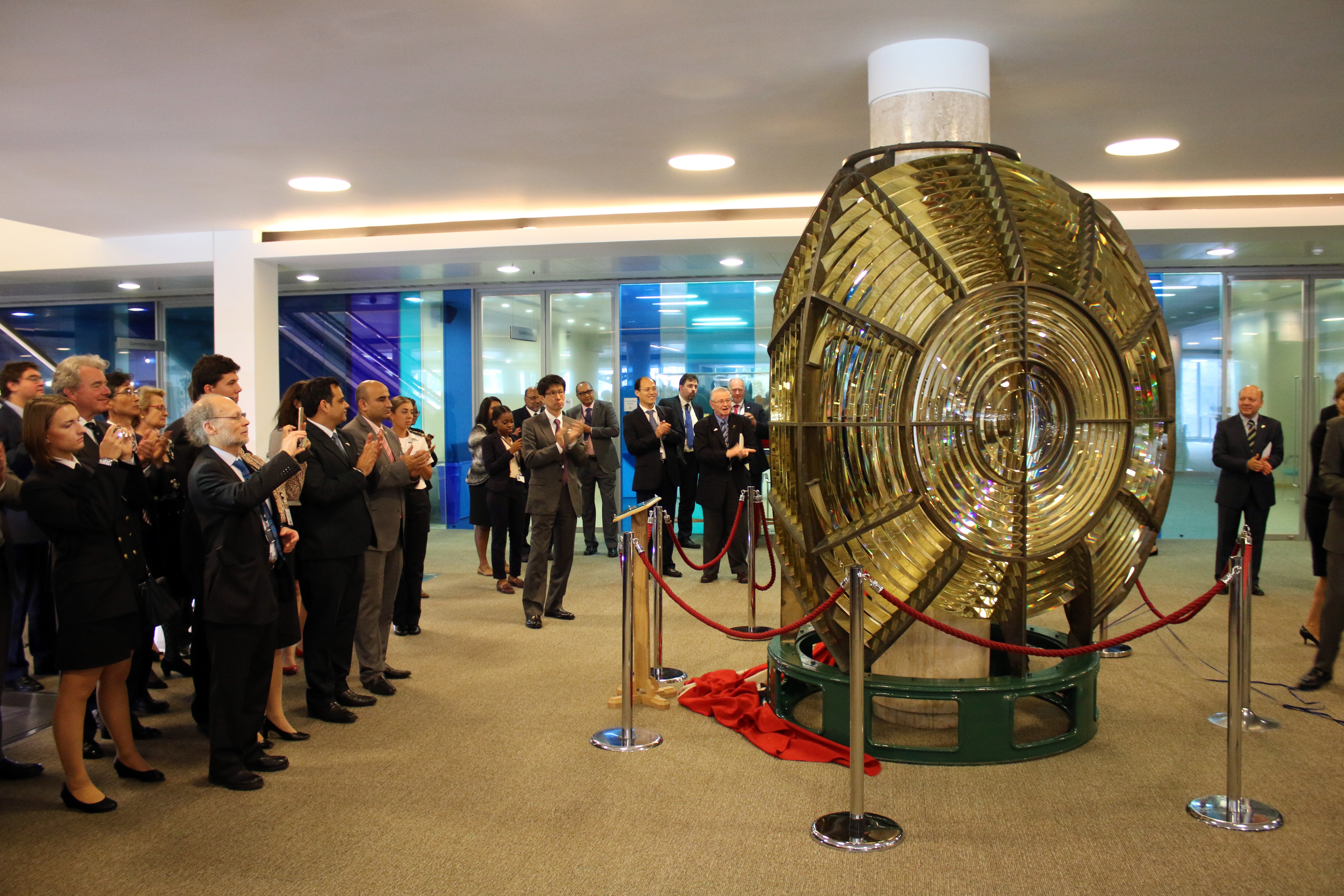 IMO was today (24 September) presented with a lighthouse optic by Trinity House, UK. The optic was unveiled by IMO Secretary-General Koji Sekimizu and Captain Ian McNaught, Deputy Master, Trinity House. Trinity House, which acts as the the General Lighthouse Authority (GLA) for England, Wales, the Channel Islands and Gibraltar, donated the lens from Orfordness Lighthouse, which was completed in 1792 on the east coast of England and guided mariners until it was decommissioned in 2013. The optic lens was installed in 1914 and served for 99 years.